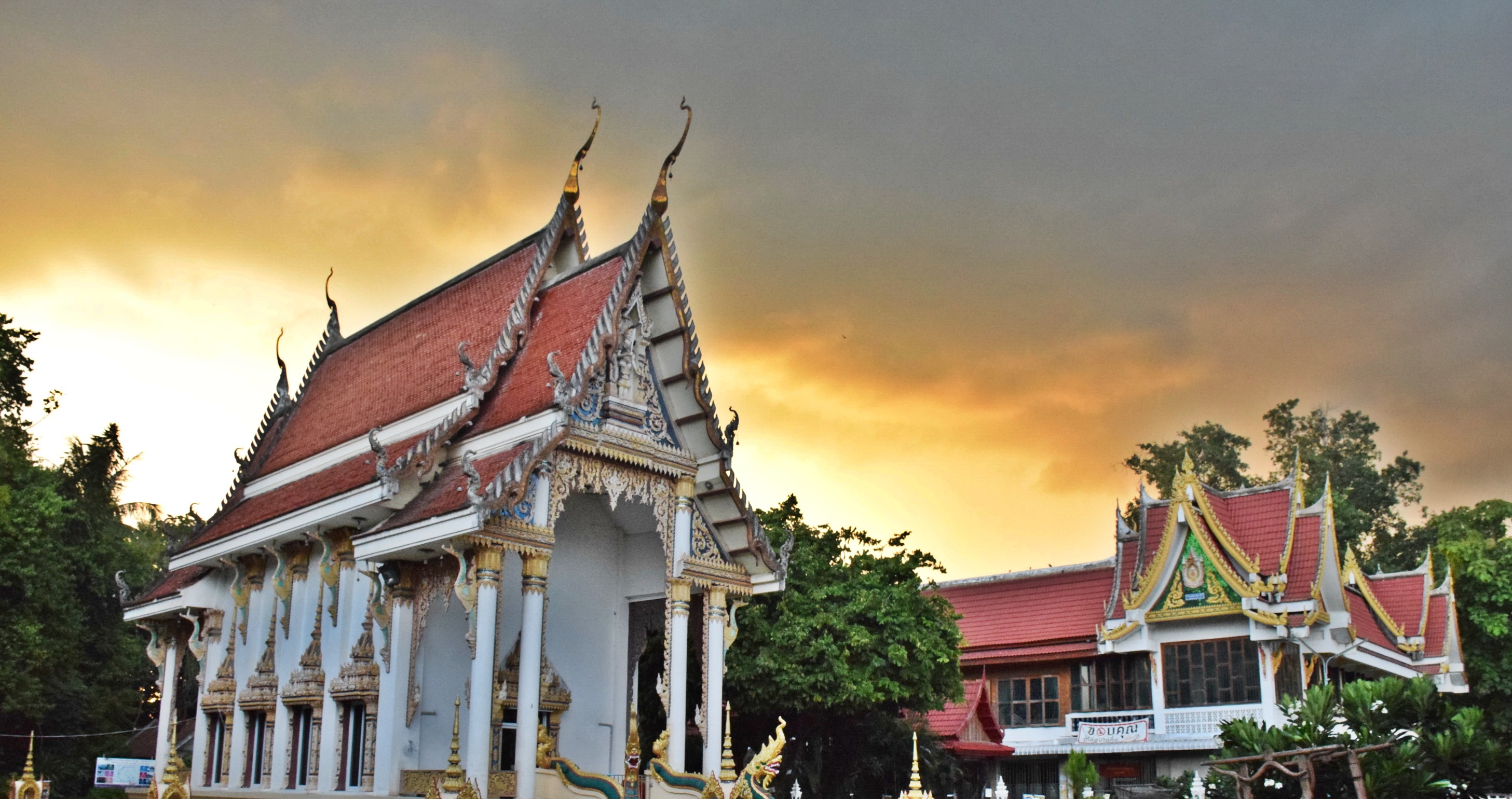 Wat Kungtapao Local Museum. at Wat Khung Taphao, Ban Khung Taphao, Khung Taphao subdistrict, Mueang Uttaradit, Uttaradit Province, Thailand.) on August 29, 2015.